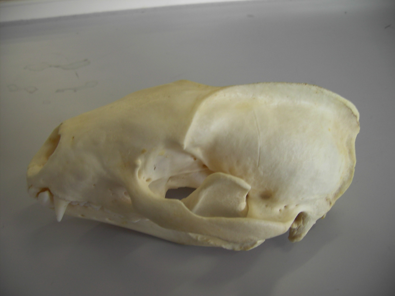 skull of a badger